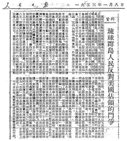 Peoples Daily January 8th, 1953, page 4, about data or information regarding the opposition of Ryukyu people against US occupation. (Excerpt, provisional translation by Ministry of Foreign Affairs of Japan) "Battle of people in the Ryukyu Islands against the U.S. occupation The Ryukyu Islands lie scattered on the sea between the Northeast of Taiwan of our State and the Southwest of Kyushu, Japan. They consist of 7 groups of islands; the Senkaku Islands, the Sakishima Islands, the Daito Islands, the Okinawa Islands, the Oshima Islands, the Tokara Islands and the Osumi Islands. Each of them consists of a lot of small and large islands and there are more than 50 islands with names and about 400 islands without names. Overall they cover 4,670 square kilometers. The largest of them is the Okinawa Island in the Okinawa Islands, which covers 1,211 square kilometers. The second largest is the Amami Oshima Island in the Oshima Islands, which covers 730 square kilometers. The Ryukyu Islands stretch over 1,000 kilometers, inside of which is our East China Sea (the East Sea in Chinese) and outside of which is the high seas of the Pacific Ocean."